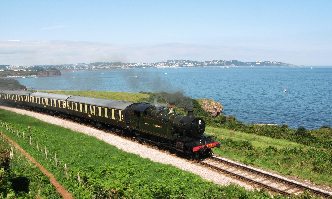 Great Western Railway 4200 Class number 5239 climbing the incline above Goodrington Sands with a train to Kingswear on the Paignton and Dartmouth Steam Railway in Devon, England.